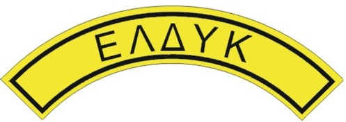 Patch of the formal military uniform of Hellenic Force in Cyprus (ELDYK)